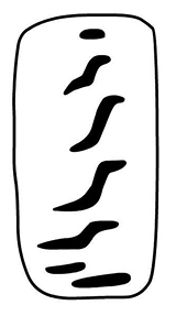 Drawing of inner view the palatal plicae of Halongella schlumbergeri (Morlet, 1886), synonym: Plectopylis jovia (after Gude 1901).